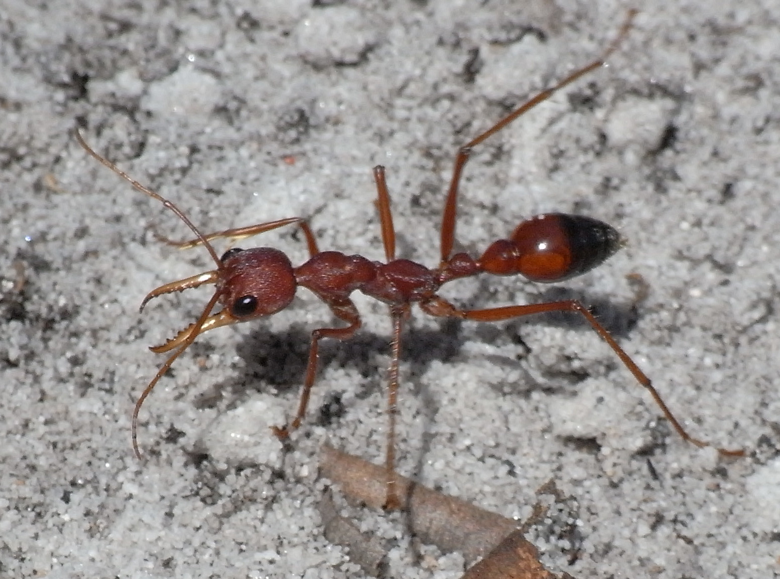 Red Bull Ant (Myrmecia gulosa) on the Old Gibber Fire Trail, Myall Lakes National Park, Australia.